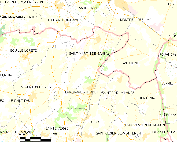 Map of French municipality Saint-Martin-de-Sanzay